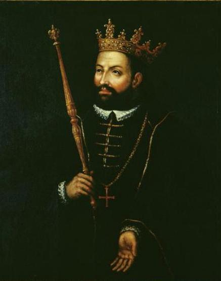 Museu Evora